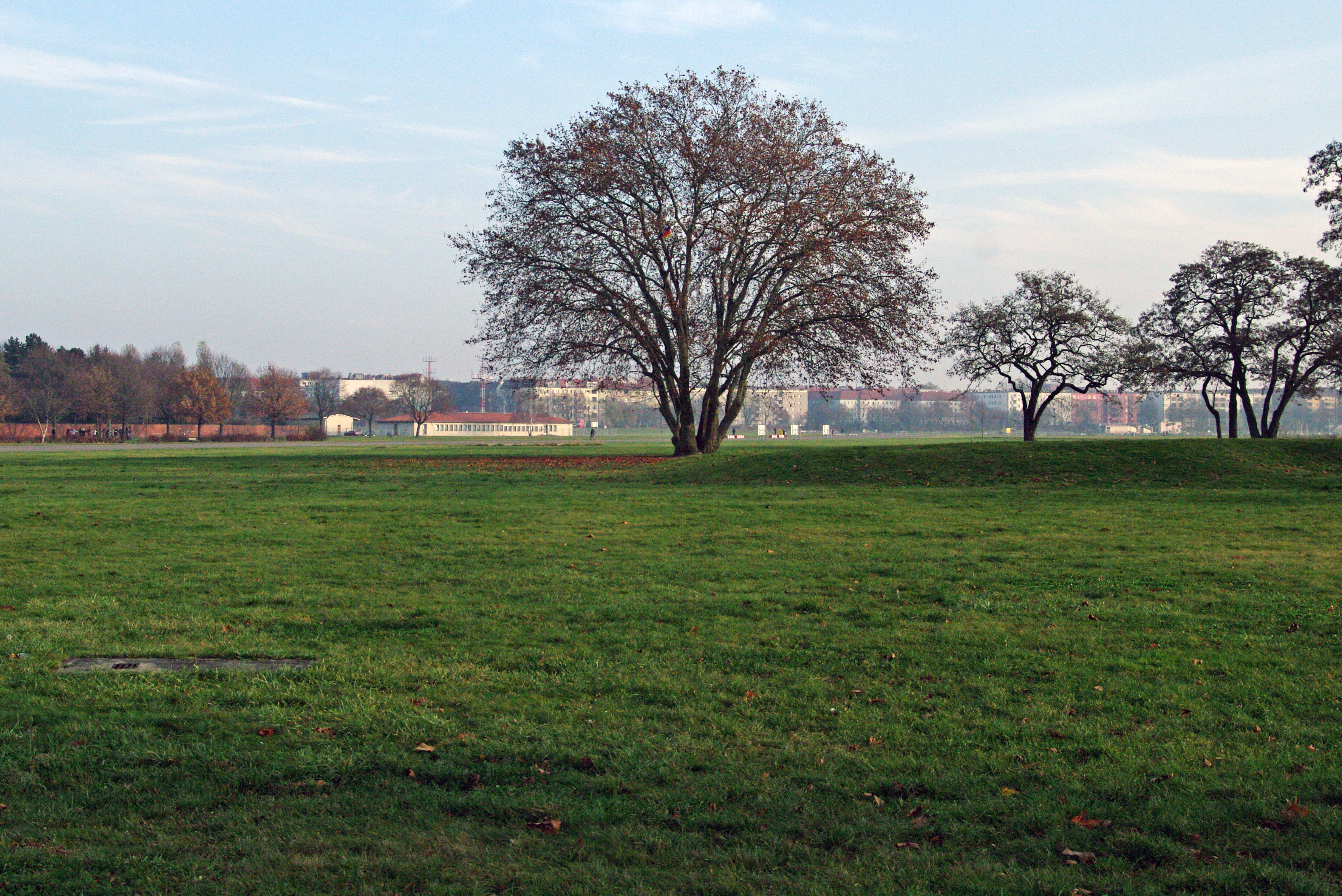 Tree and meadow on the north side of the Tempelhofer Park in Berlin.